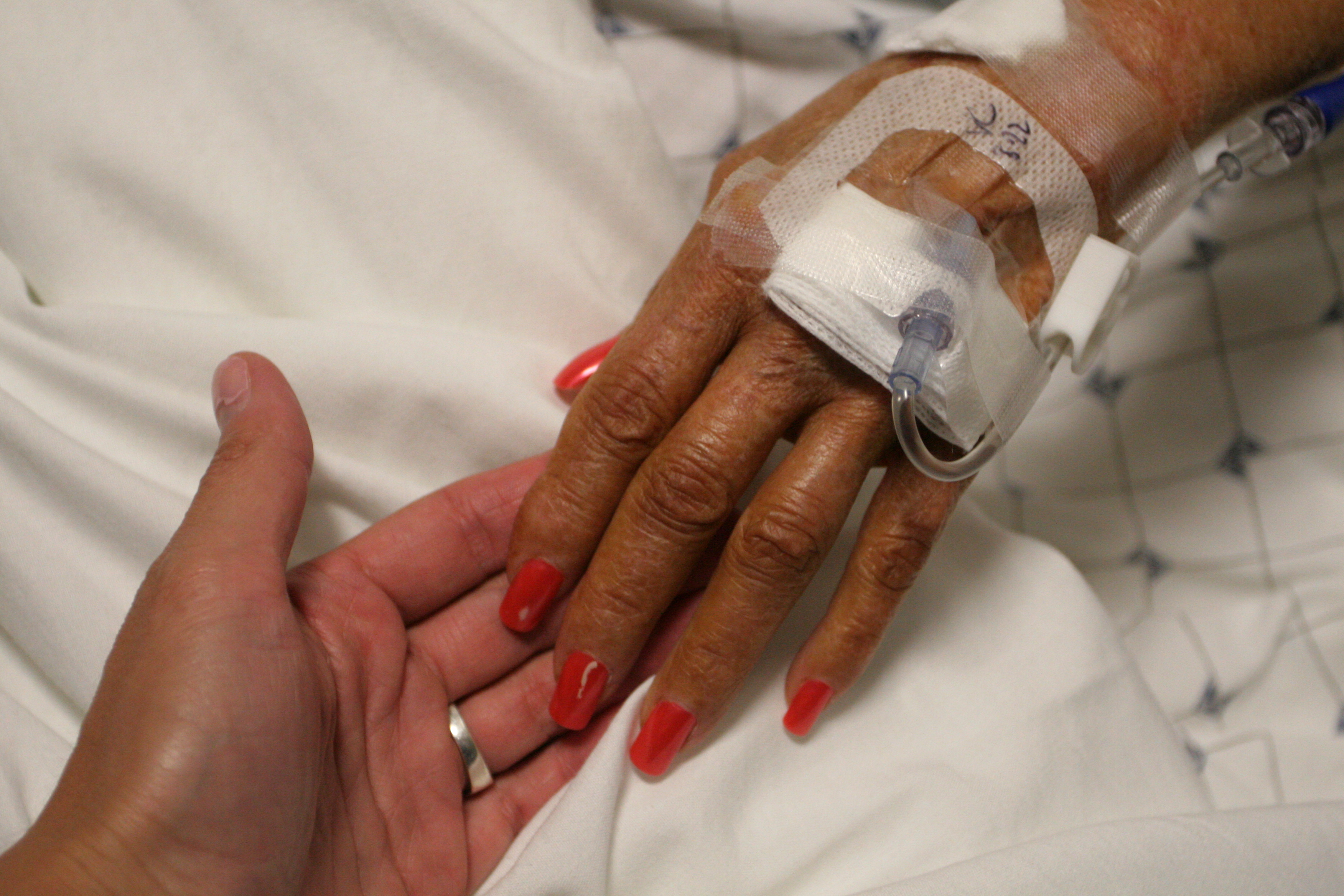 Last night around midnight my mom started feeling nauseous. She proceeded to be sick for the next 4 hours, until it was too much and we called 911. fast forward to 3pm and she is admitted to the hospital with gallstones, and most likely a cholecystectomy (gallbladder surgery) is in her near future. She is resting comfortably now, with morphine, antibiotics, and anti nausea meds. I have been up for almost a day, am super tired. Am so glad i was here when this all went down.